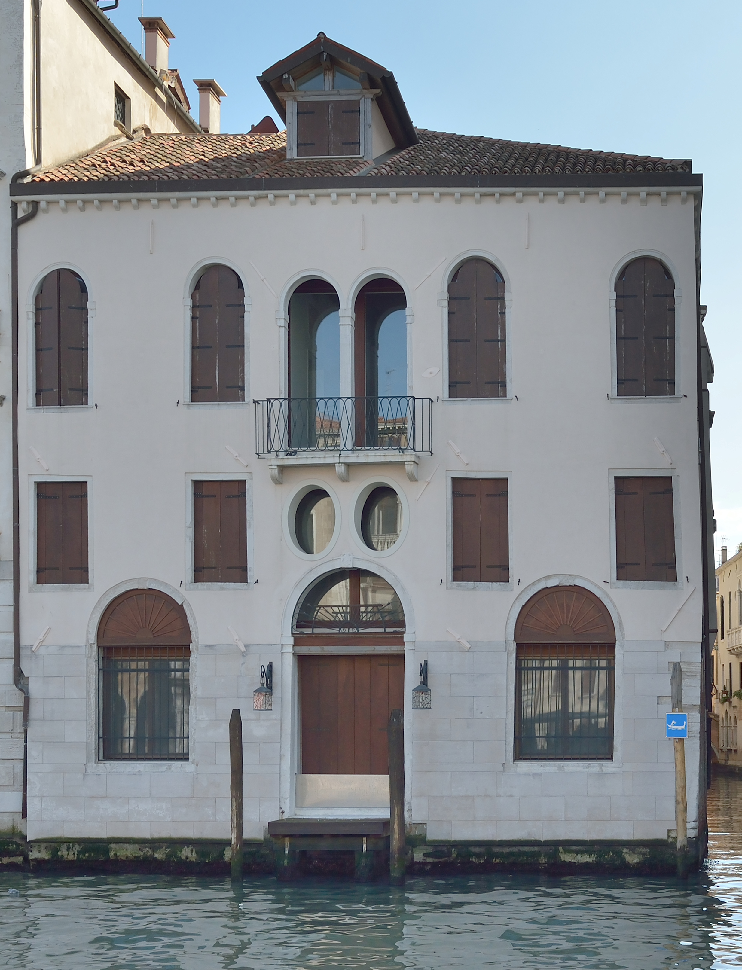 pal dona sangiantoffetti zoom